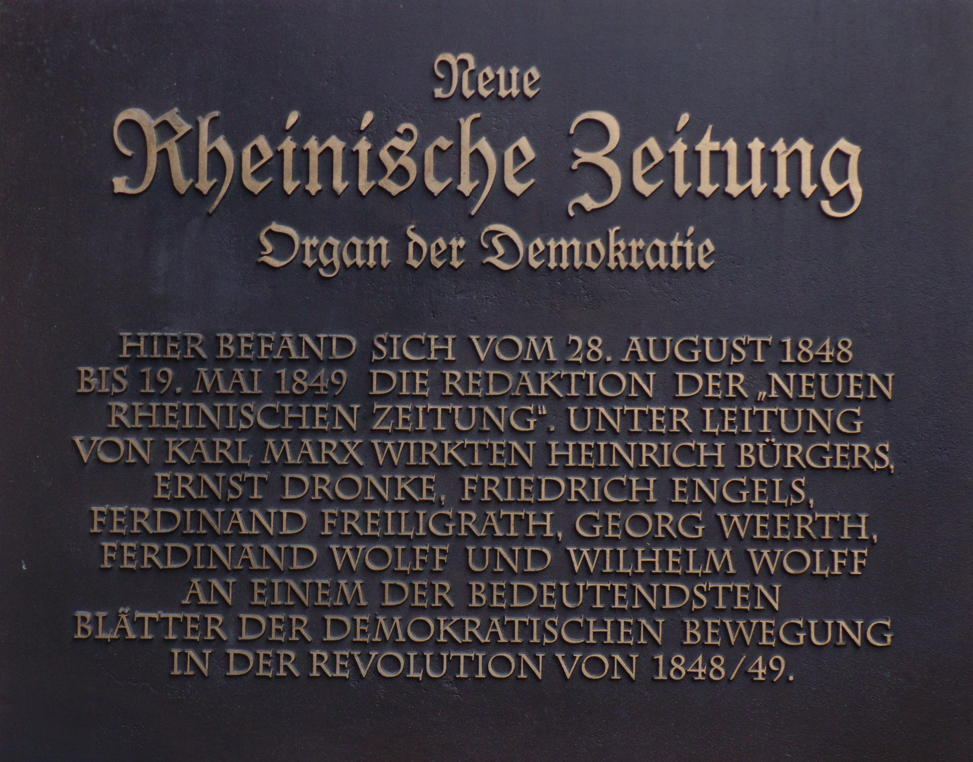 Tafel zur Erinnerung an den Sitz der "Neuen Rheinischen Zeitung" in Köln, Heumarkt 65